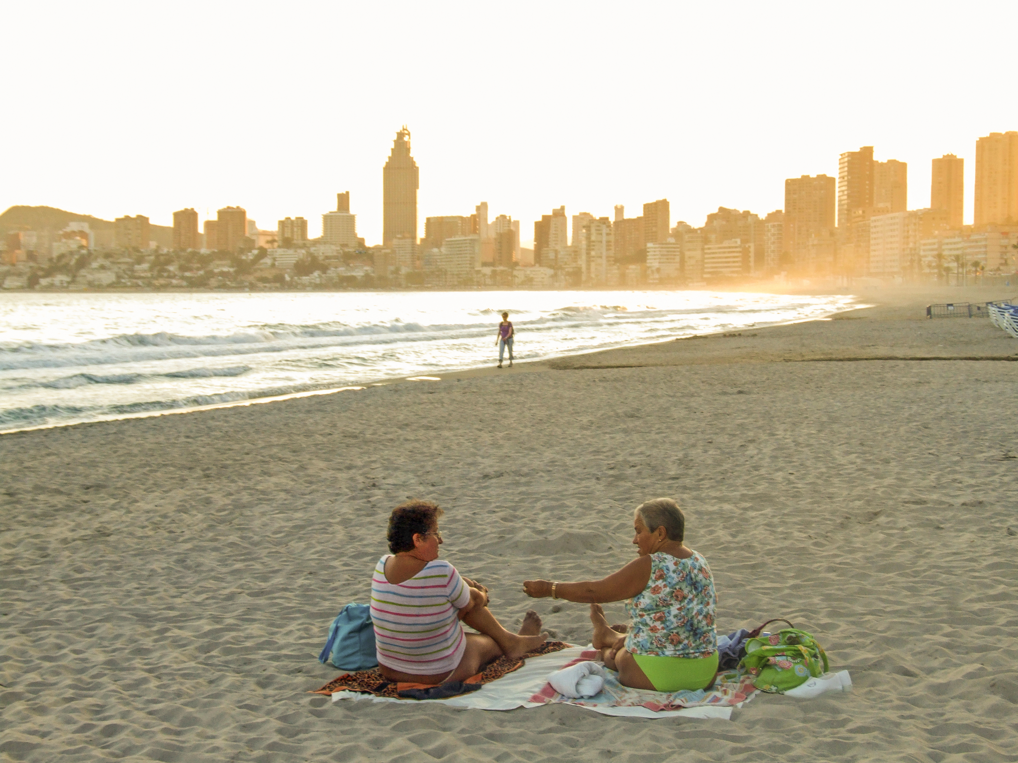 Playa Poniente in Benidorm when the sun sets. Picture taken 2009.